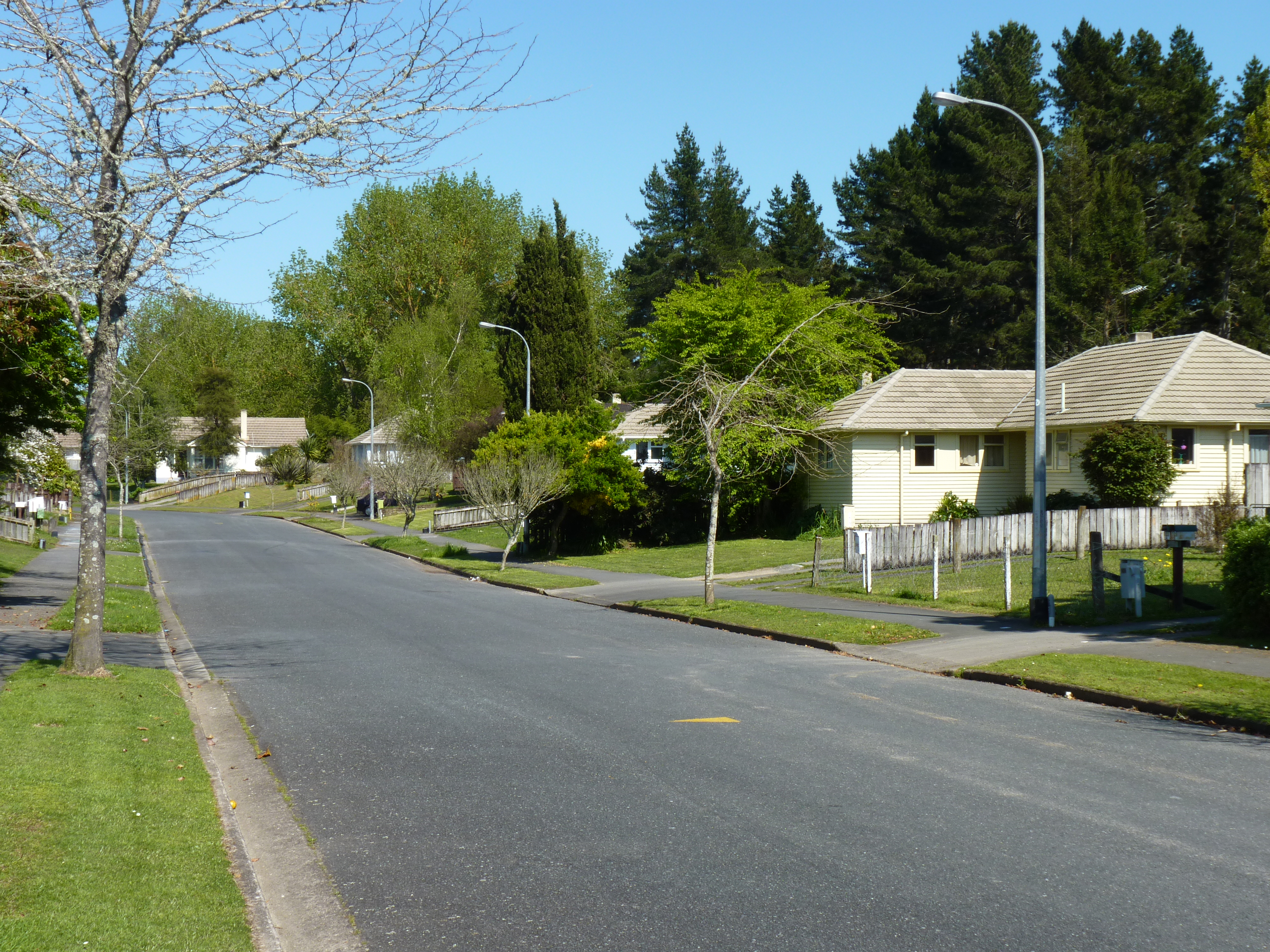 Fitzroy, south Hamiton.